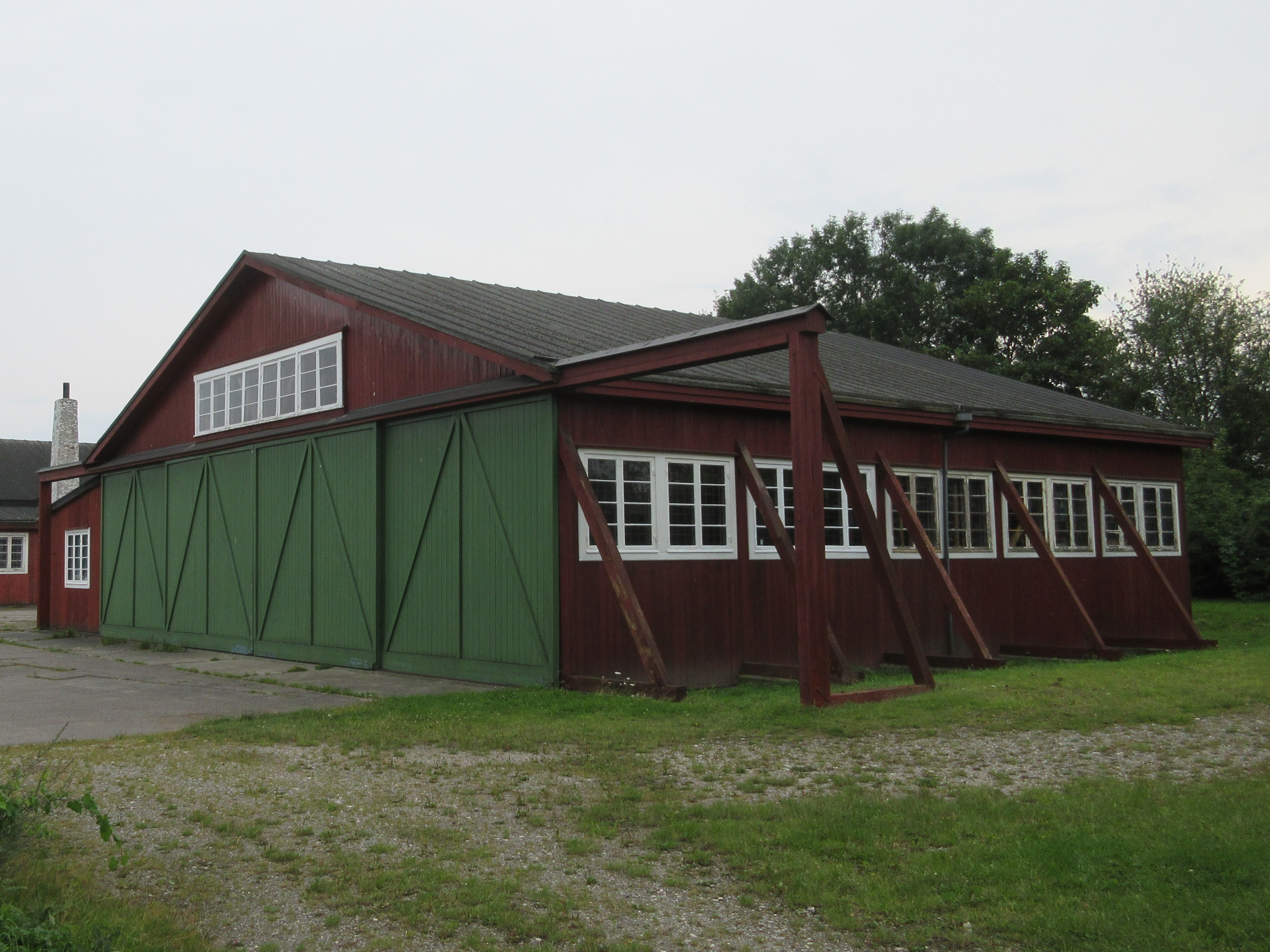 The hangar located furthest from Gammel Køgelandsvej aon Avedøre Flyveplads, Hbidovre Municipality, Denmark